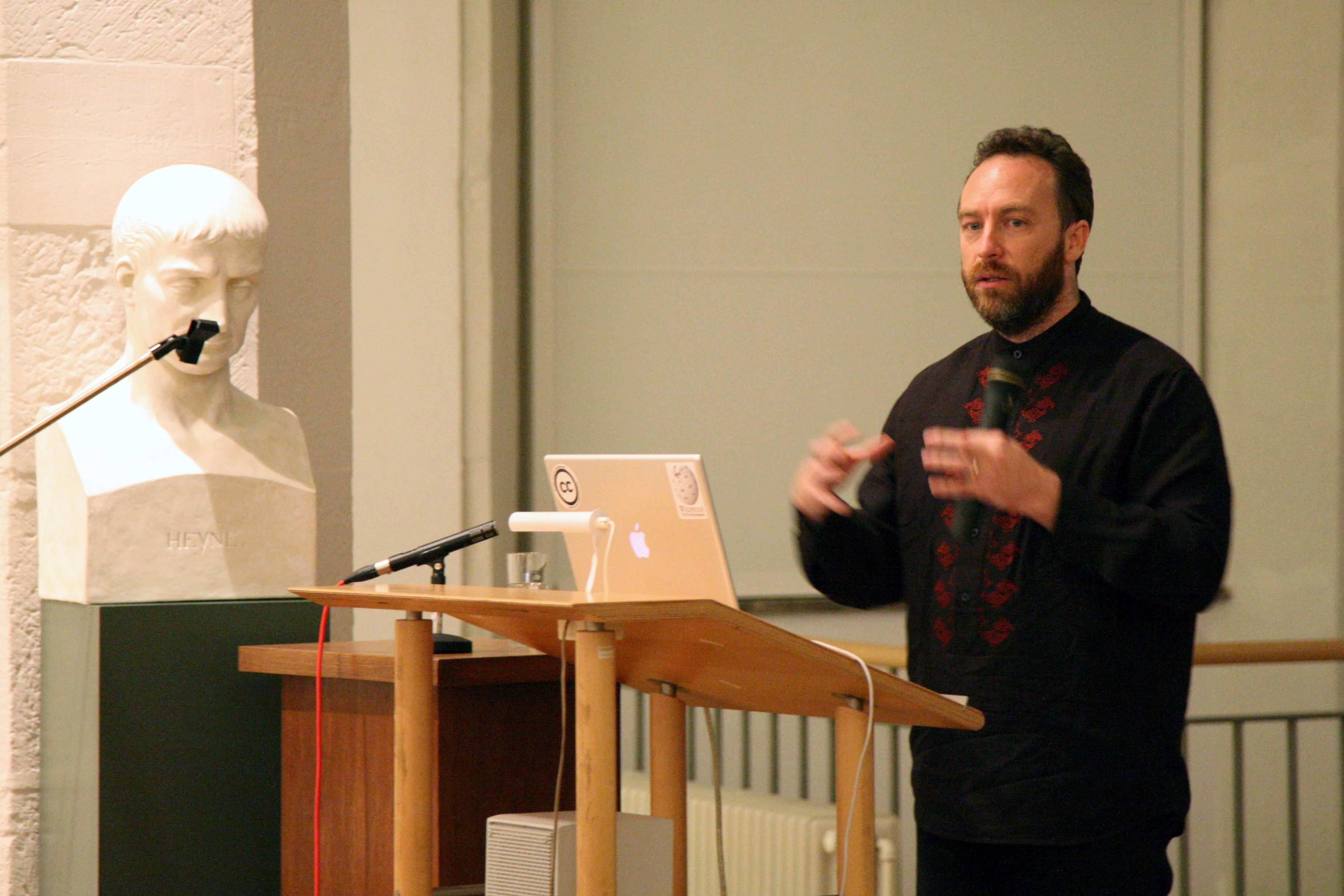 Jimmy Wales during his lecture at the Paulinerkirche, Göttingen, Lower Saxony, Germany.